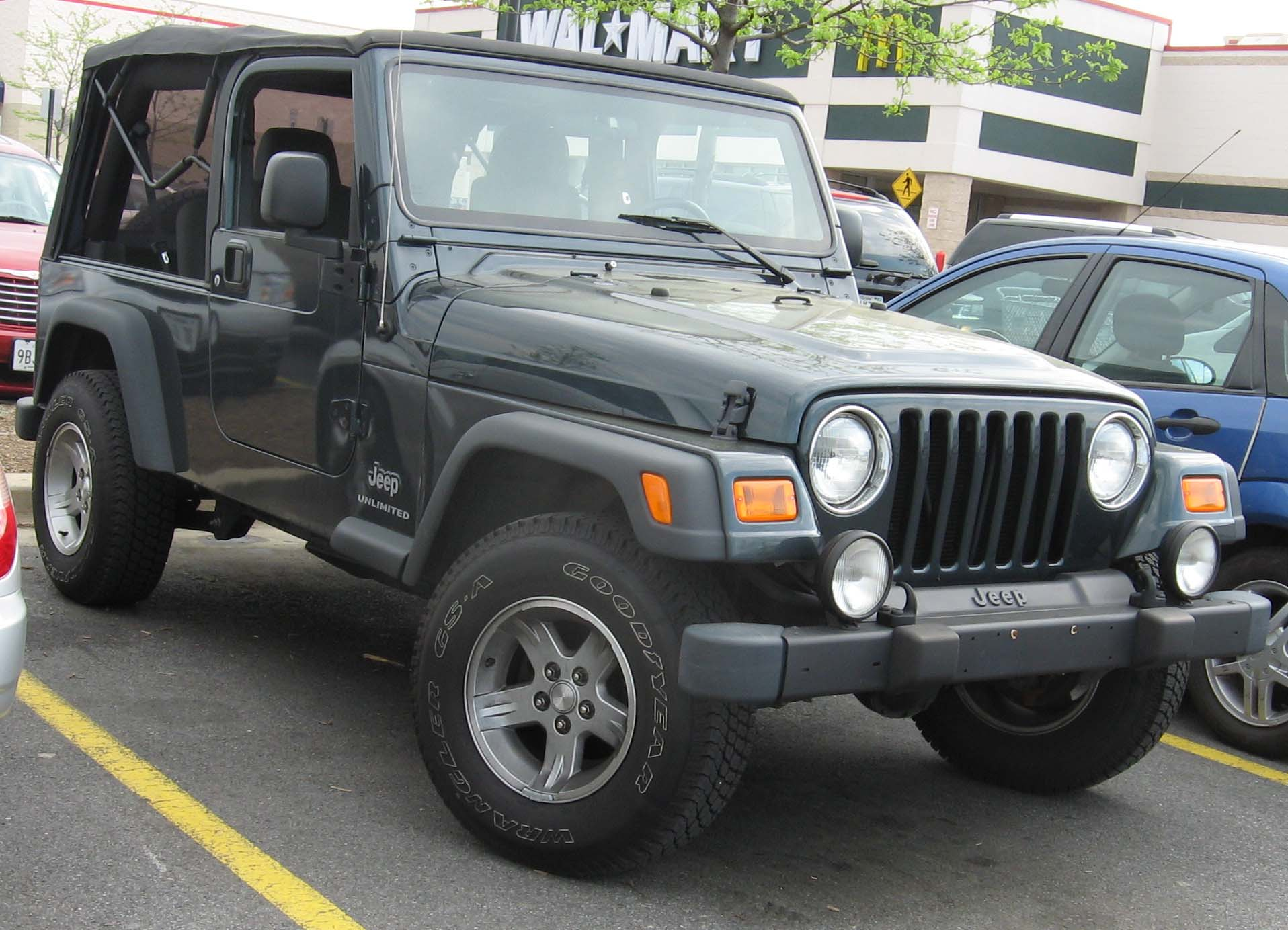 2004-2006 Jeep Wrangler photographed in USA.